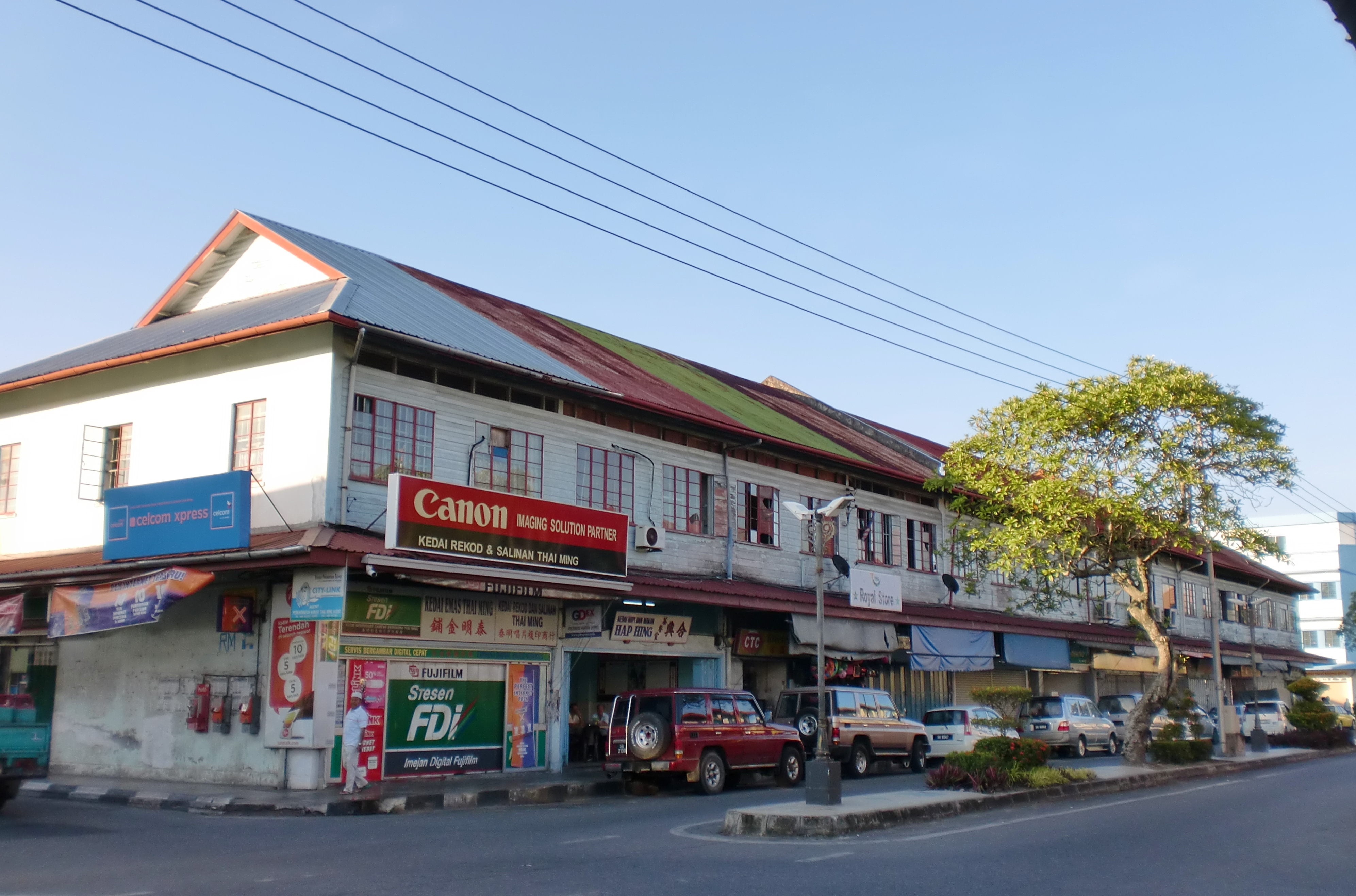 Colonial-era shophouses in Kudat, Sabah, Malaysia.